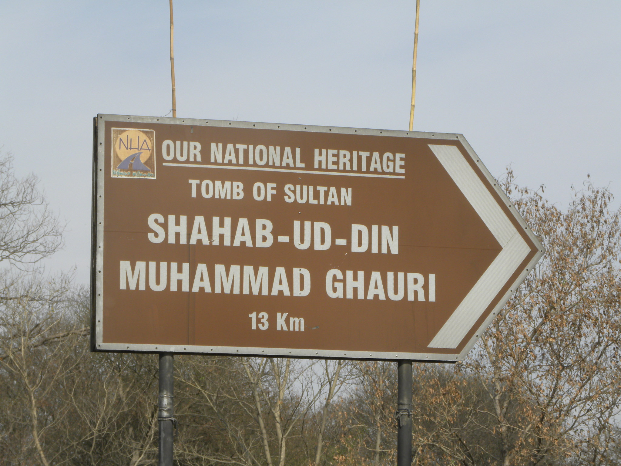 Sign board of tomb at Sohawa